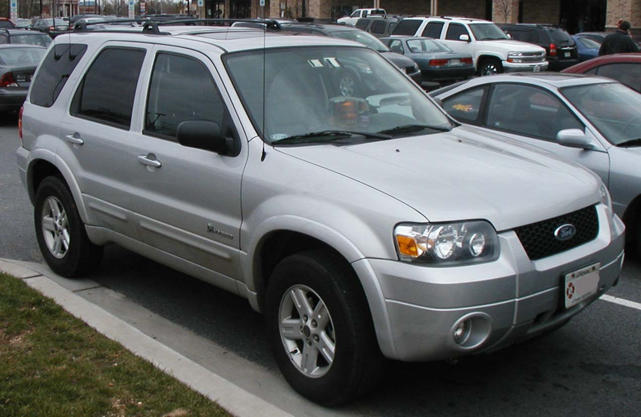 2005-2007 Ford Escape Hybrid Nissan Altima photographed in USA.